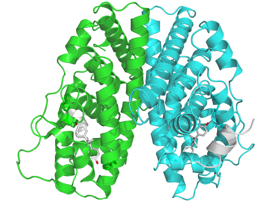 Created myself using PyMol